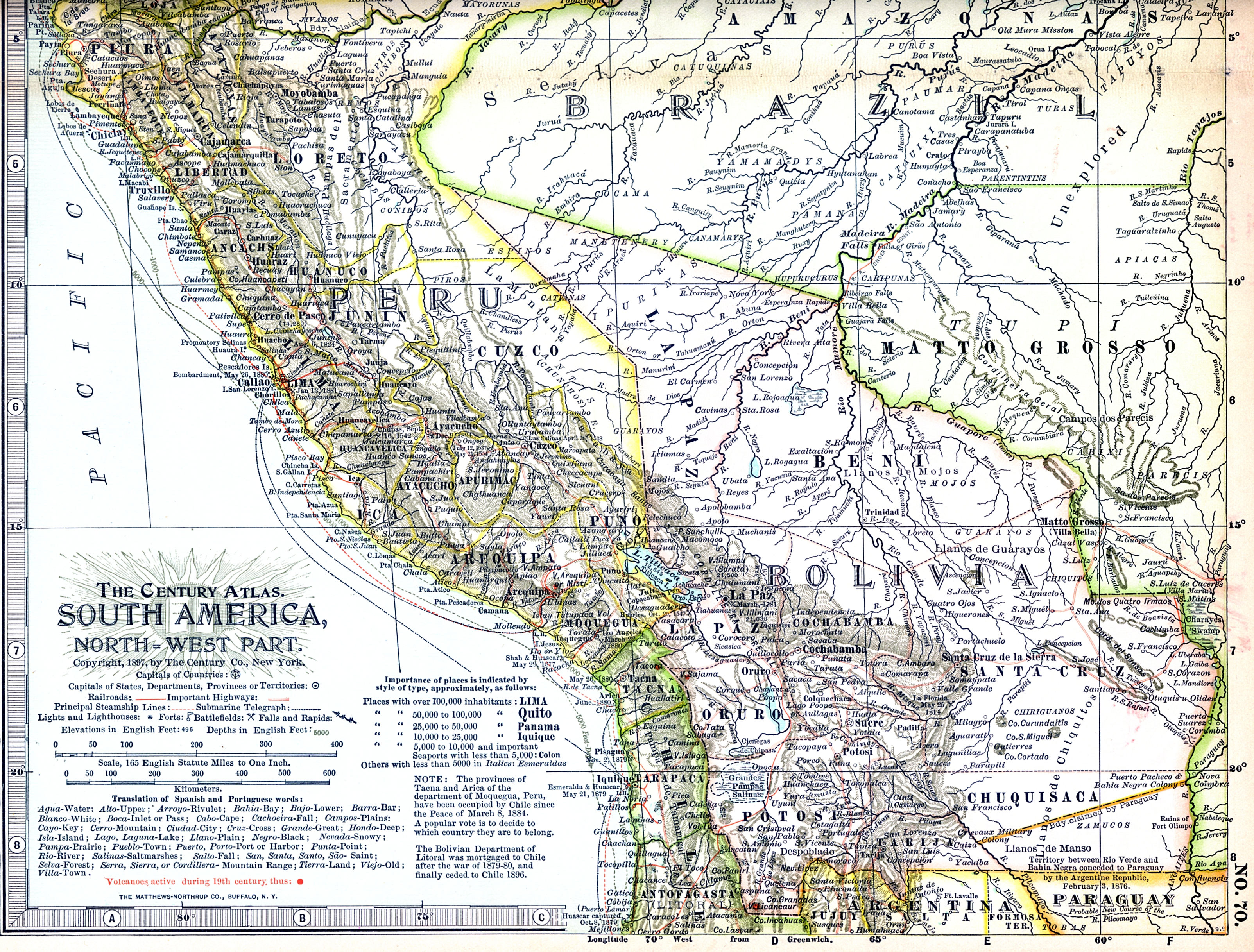 Mapa América del Sur. South-America, North - West Part 1897.